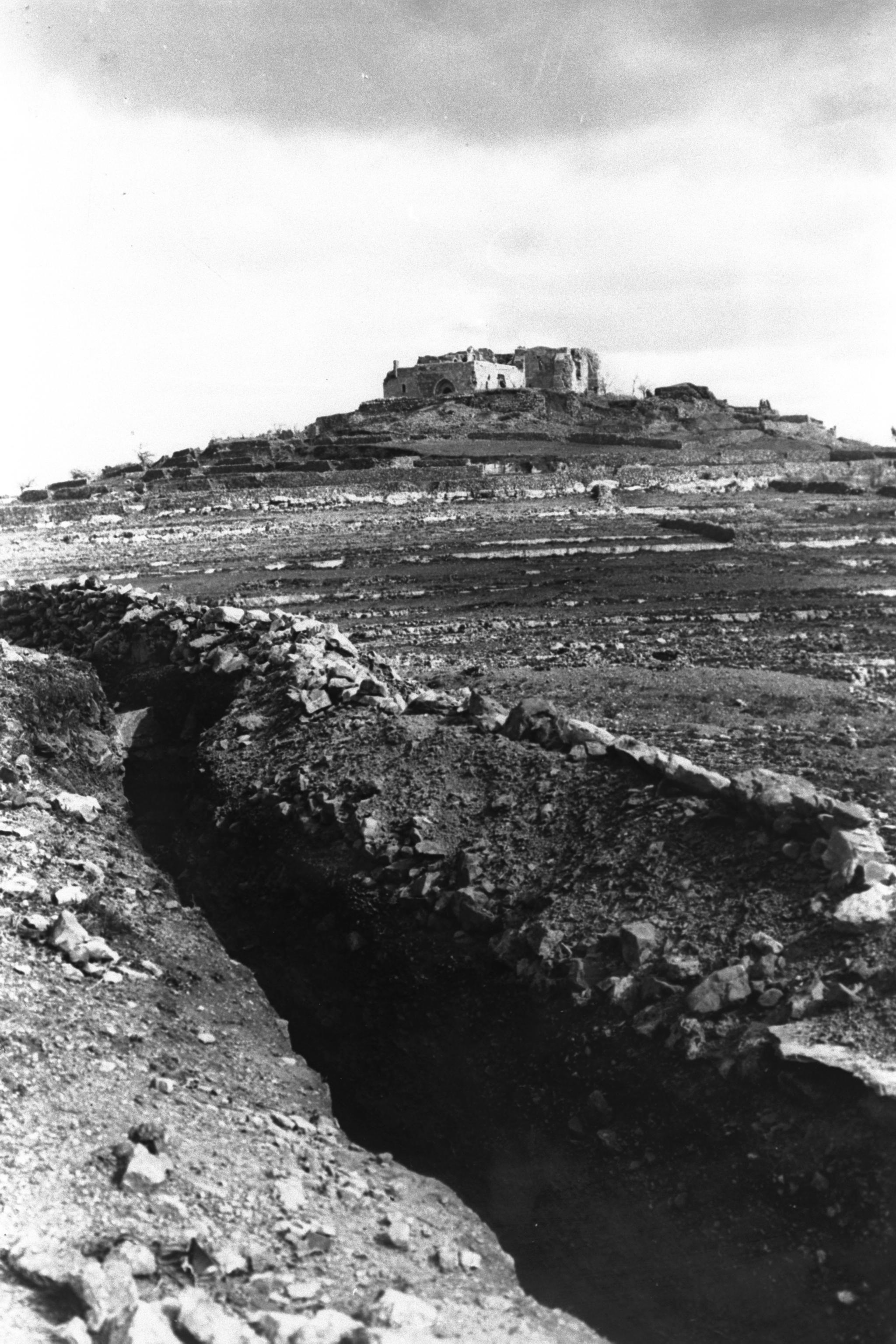 VIEW OF NEBY SAMMUEL FROM THE BRITISH MANDATE ERA TRENCHES DUG BY THE BRITISH ARMY TO THE NORTH OF JERUSALEM. מבט כללי על נבי סמואל - NEBY SAMMUEL , מחפירות העמדות של הצבא הבריטי בזמן מלחמת העולם הראשונה, בתקופת המנדט בארץ ישראל.